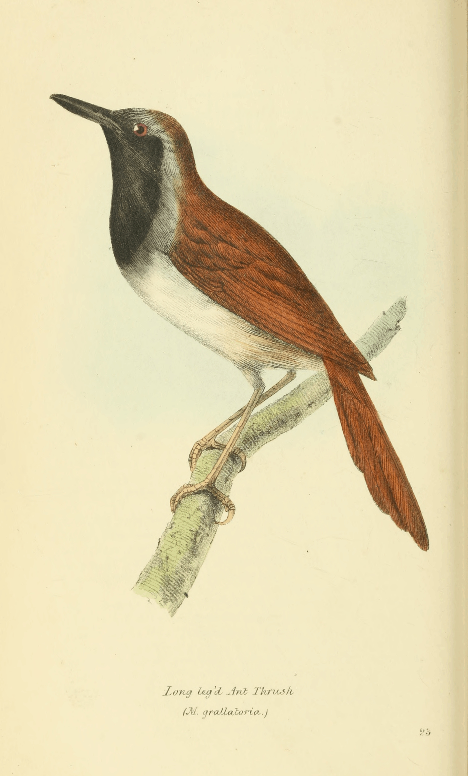 Plate from Zoological illustrations, Volume 1, 2nd series. Drymophila longipes Sw. Accepted as Myrmeciza longipes[1] (The name M. grallatoria inscribed on the plate is a blunder, corrected in Swainson's text).